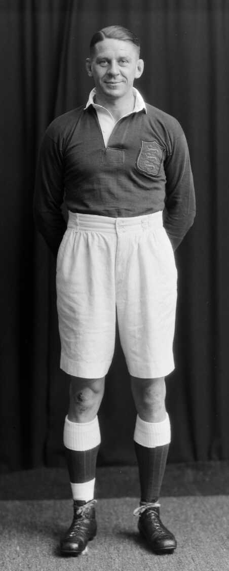 F D Prentis, member of the British Lions rugby union team